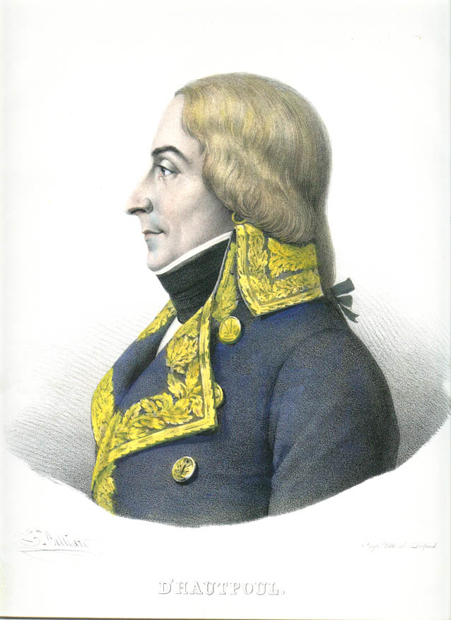 Lithograph published in Paris circa 1830, portraying general of division Jean-Joseph-Ange d'Hautpoul.